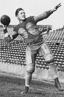 Georgia Tech fullback Doug Wycoff circa 1925.